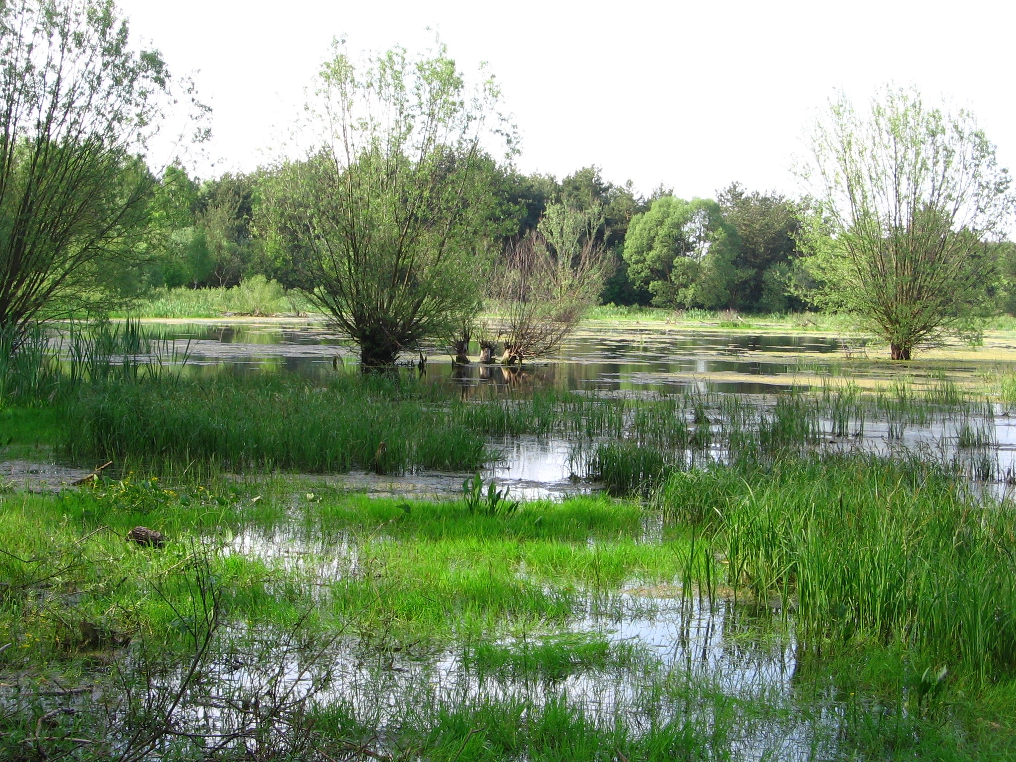 Meander of Pilica River near Sulejów, Poland